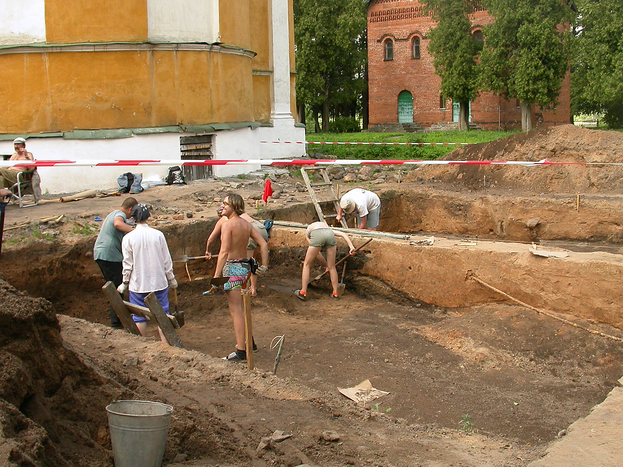 Archeological excavations in Uglich, Russia